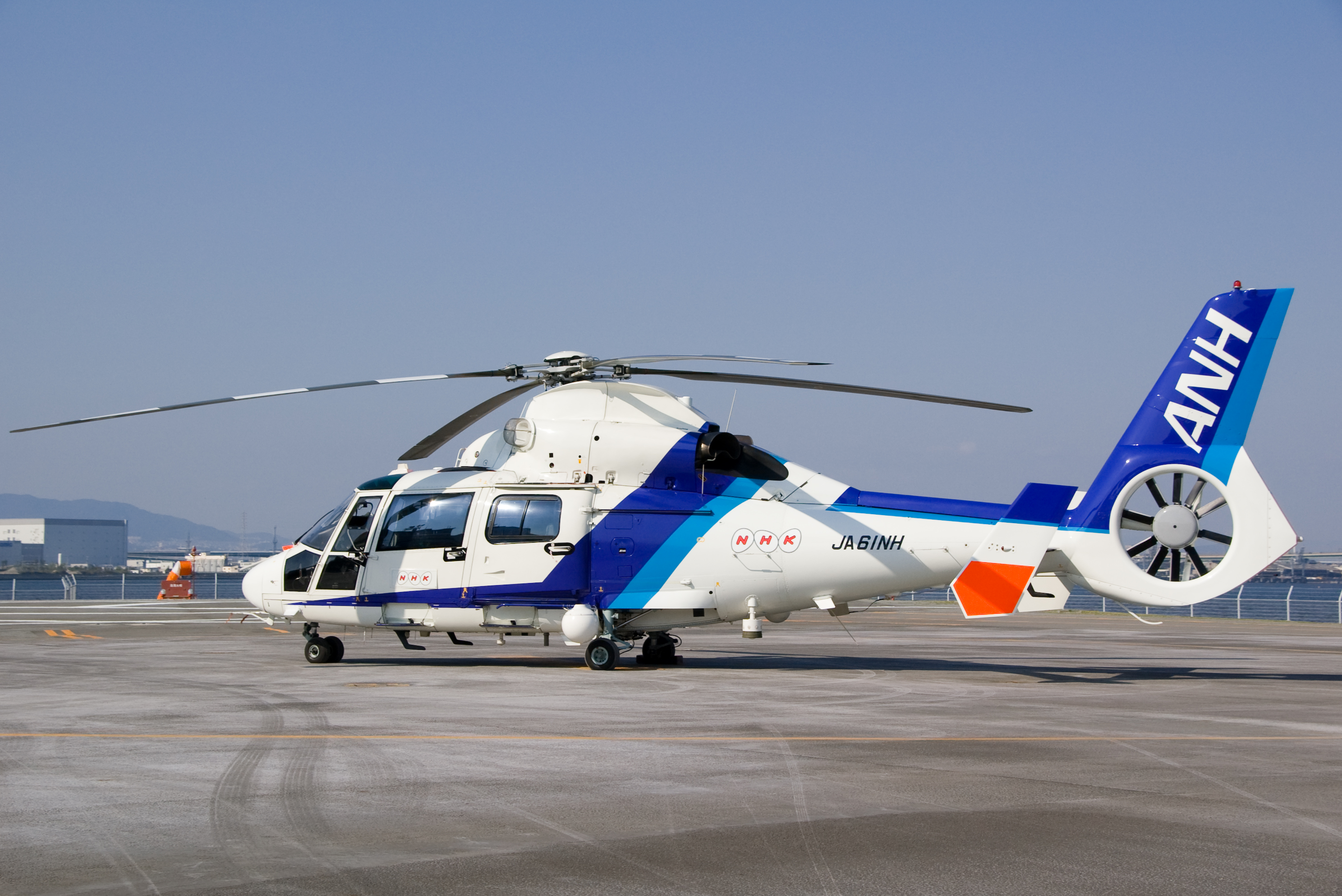 Photograph of All Nippon Helicopter's Eurocopter AS365N2 (JA61NH), chartered by NHK, taken at Maishima Heliport in Konohana-ku, Osaka, Osaka Prefecture, Japan.